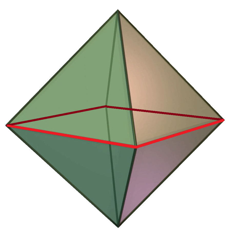 Square hole marked in red on regular octagon Derived from File:Octahedron.jpg